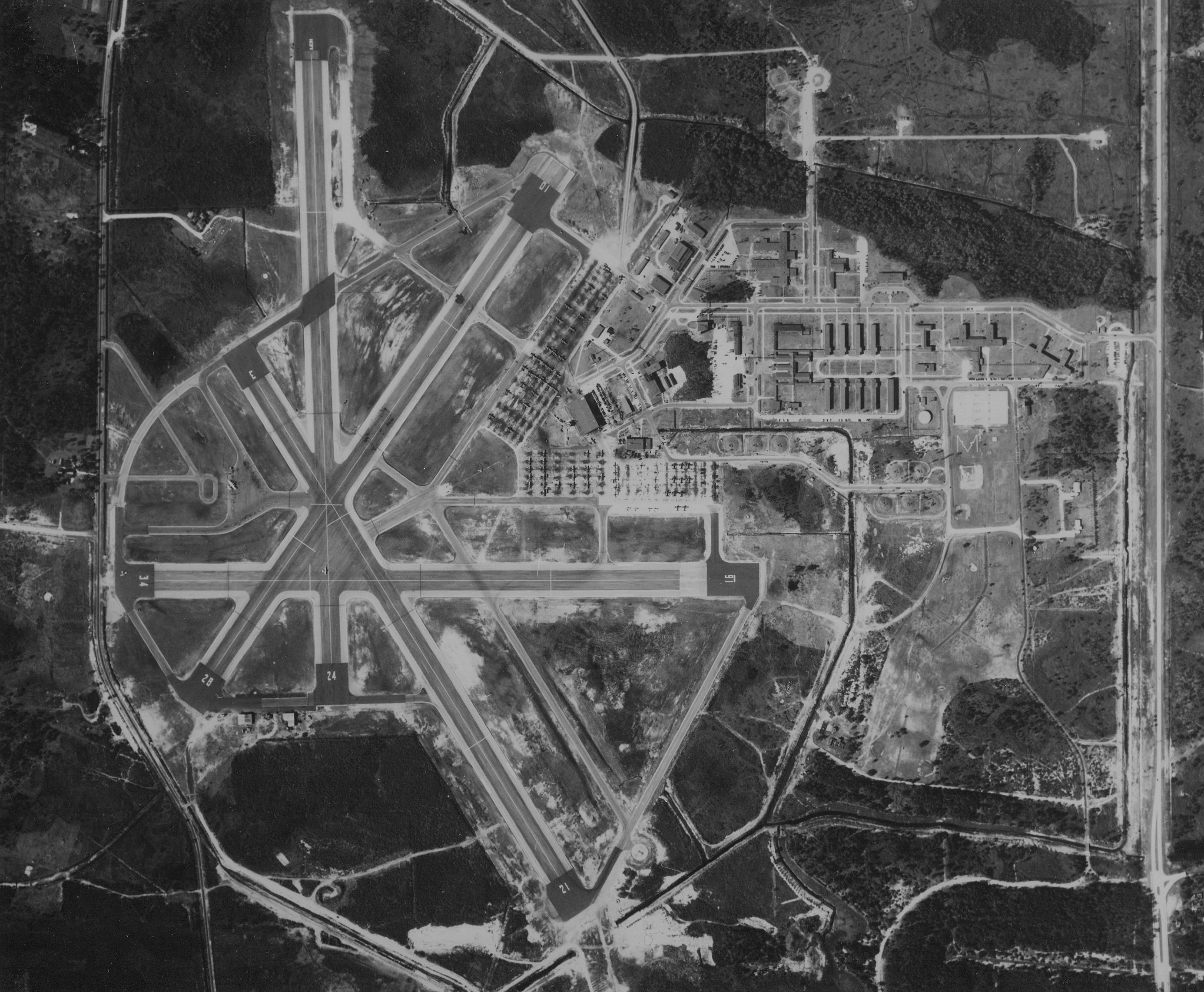 US Navy Photo 80-G-283919 - Naval Air Station Daytona Beach, October 26, 1944. Overhead aerial view from 8,250 fee5 altitude